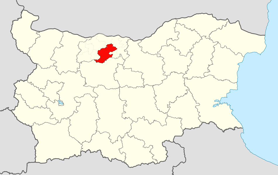 Location map of Pleven Municipality within Pleven Province, Bulgaria. Equirectangular projection, N/S stretching 130 %. Geographic limits of the map: N: 44.4° N S: 41.1° N W: 22.1° E E: 28.9° E